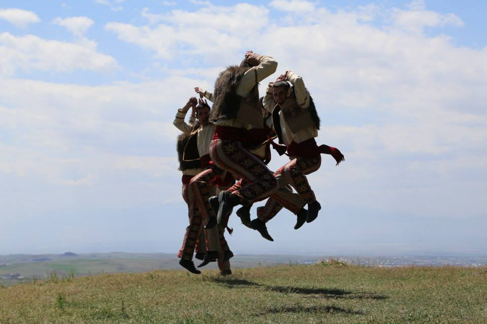 Armenian martial dance Yarkhushta